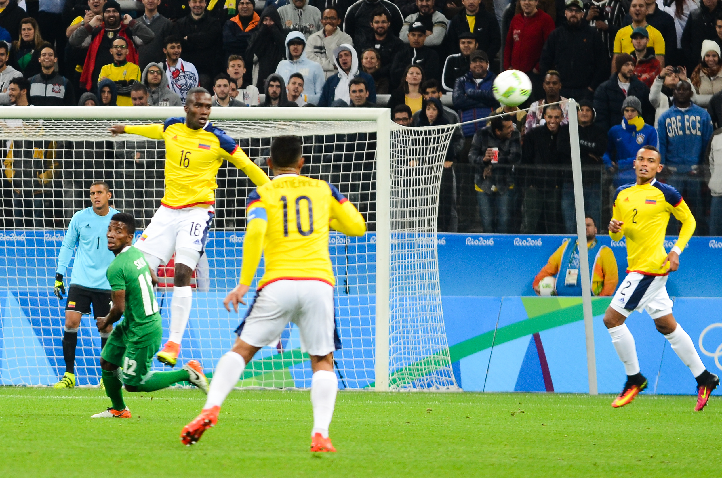 São Paulo - Colômbia vence a Nigéria por 2x0 na Arena Corinthians (Rovena Rosa/Agência Brasil)